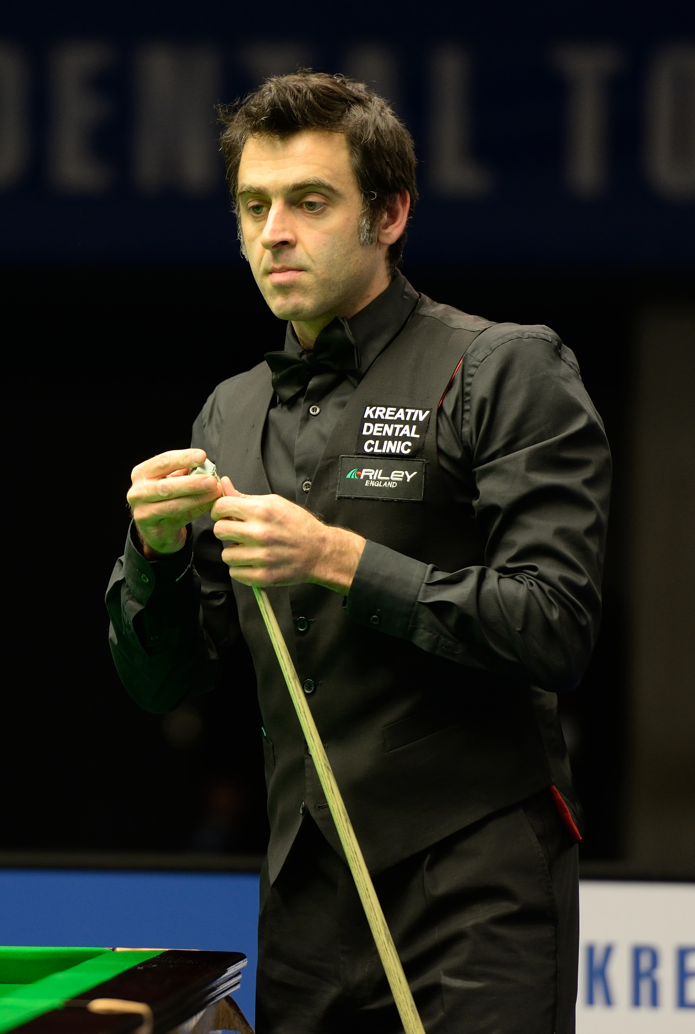 Picture taken in Berlin during the Snooker German Masters in 2015. Ronnie O’Sullivan.